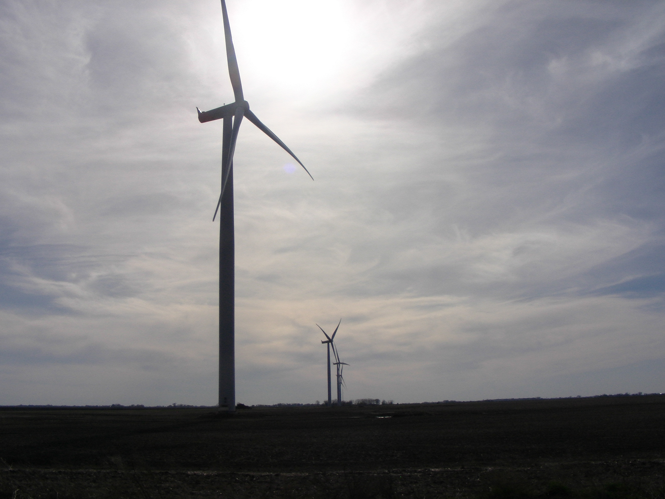 Wind turbines near St. Joseph Manitoba Canada, visible from Highway 75 mid-way between Winnipeg and the US border. Photo taken 2011 May 14